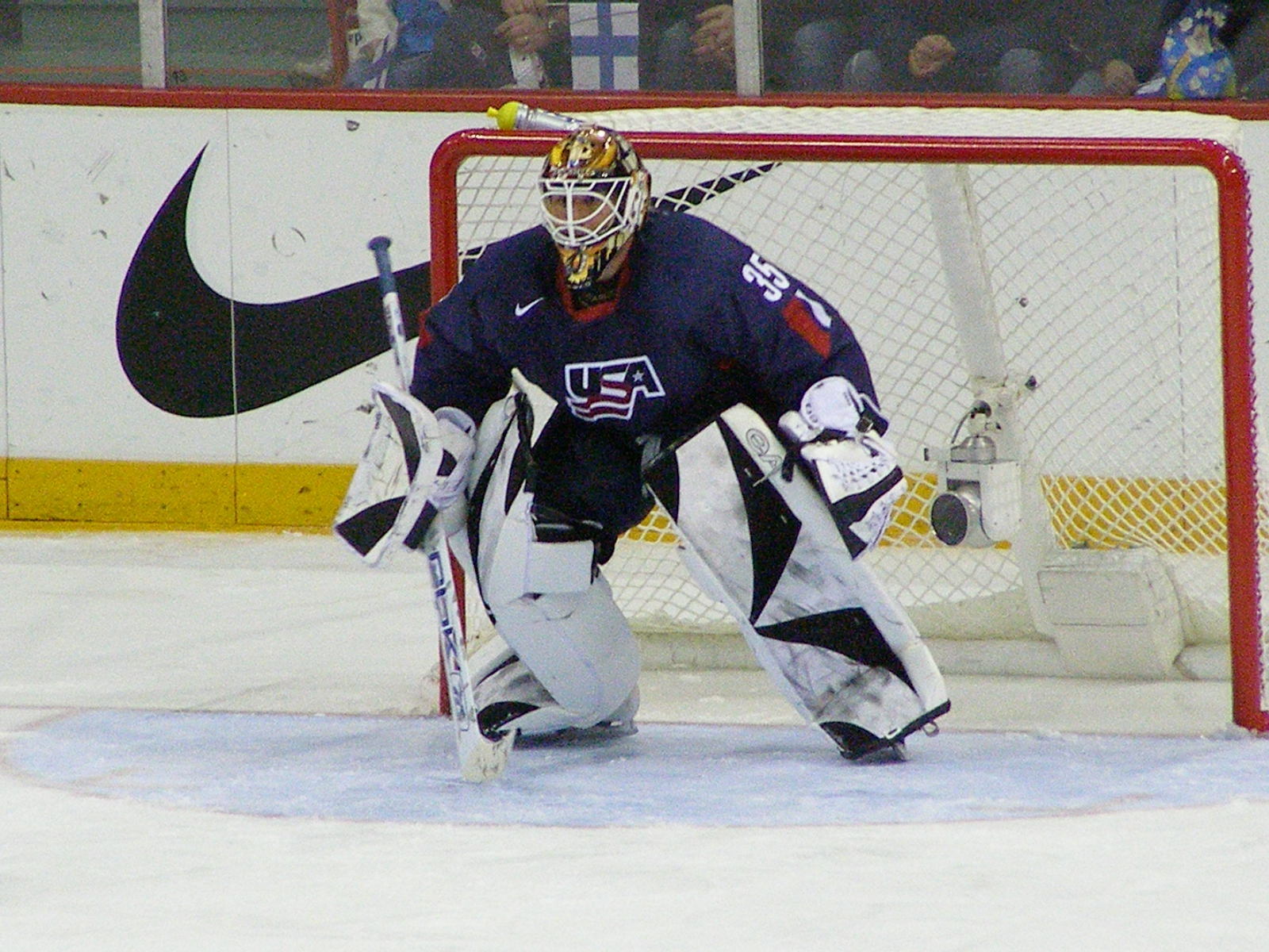 Robert Esche, 2008 IIHF World Championship.